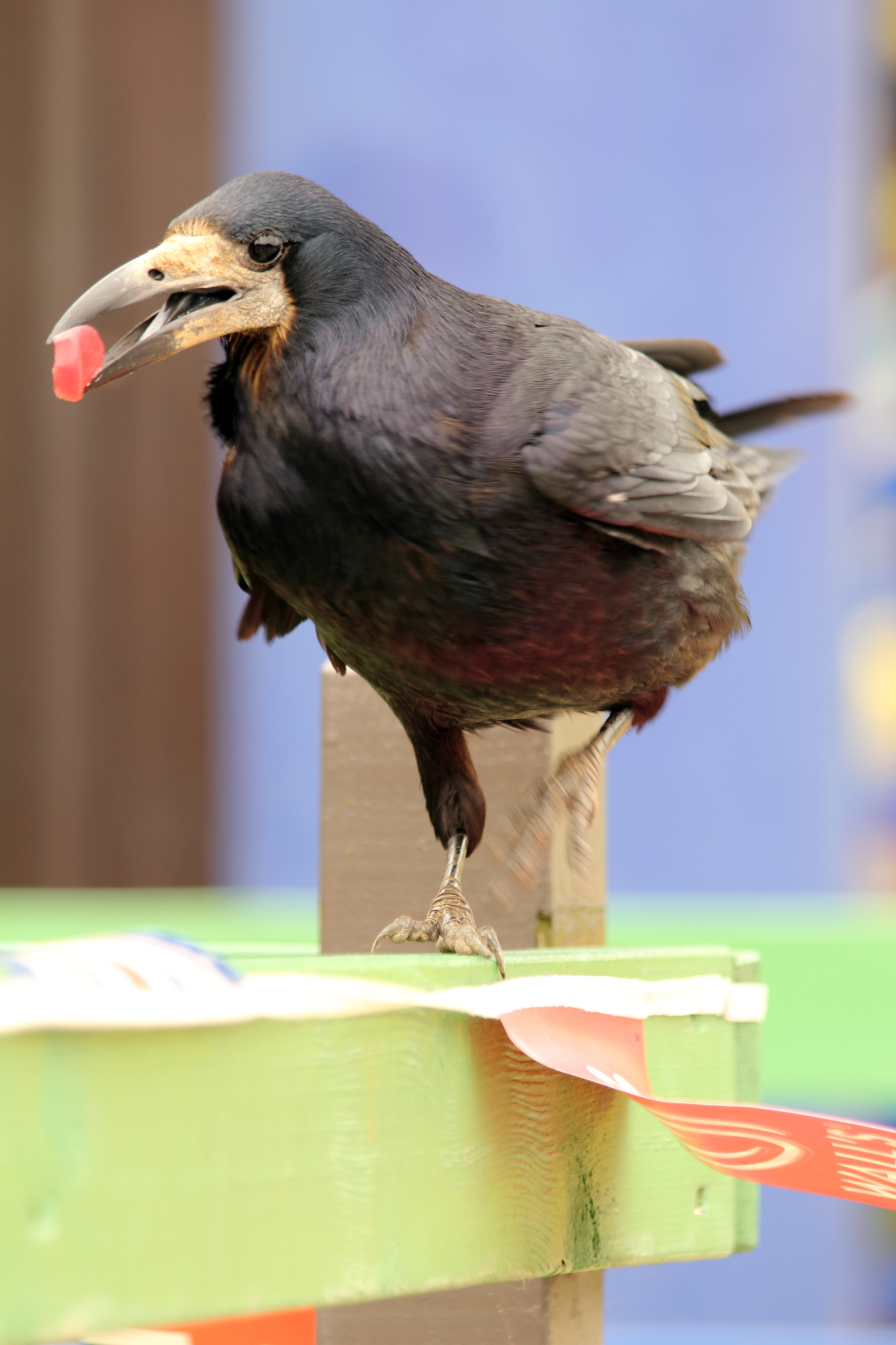 Latin name Corvus frugilegus Family Crows and allies (Corvidae) Overview Bare, greyish-white face, thinner beak and peaked head make it distinguishable... Where to see them ... When to see them All year round. What they eat Worms, grain and insects